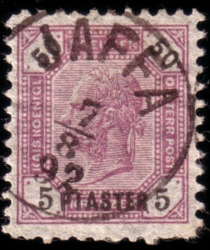 Austrian 5 piaster overprint on 50 kreuzer, issue 1891, Austrian Levant stamp, cancelled 7.08.1892 in Jaffa